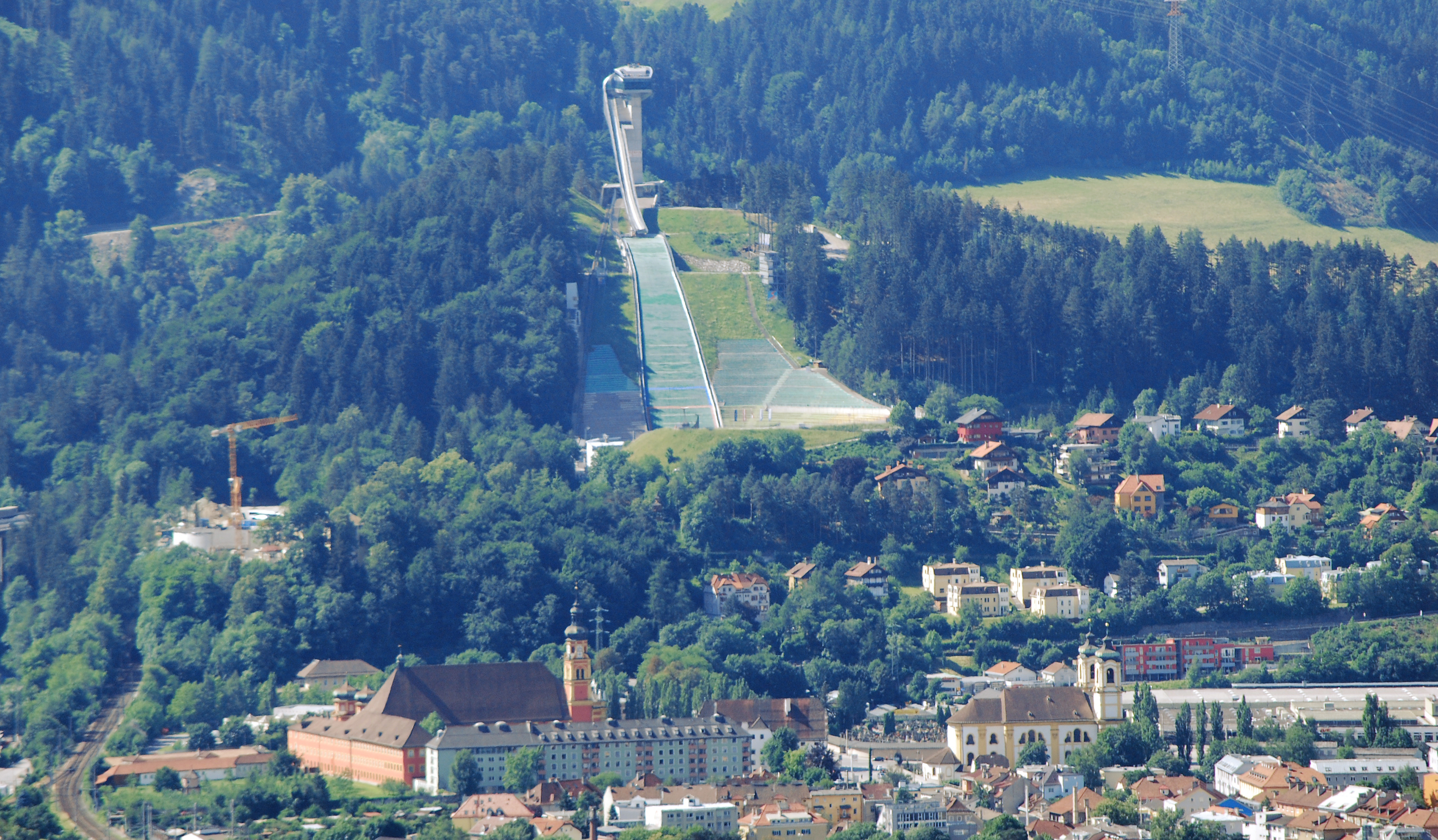 Bergisel from North. Stift Wilten.